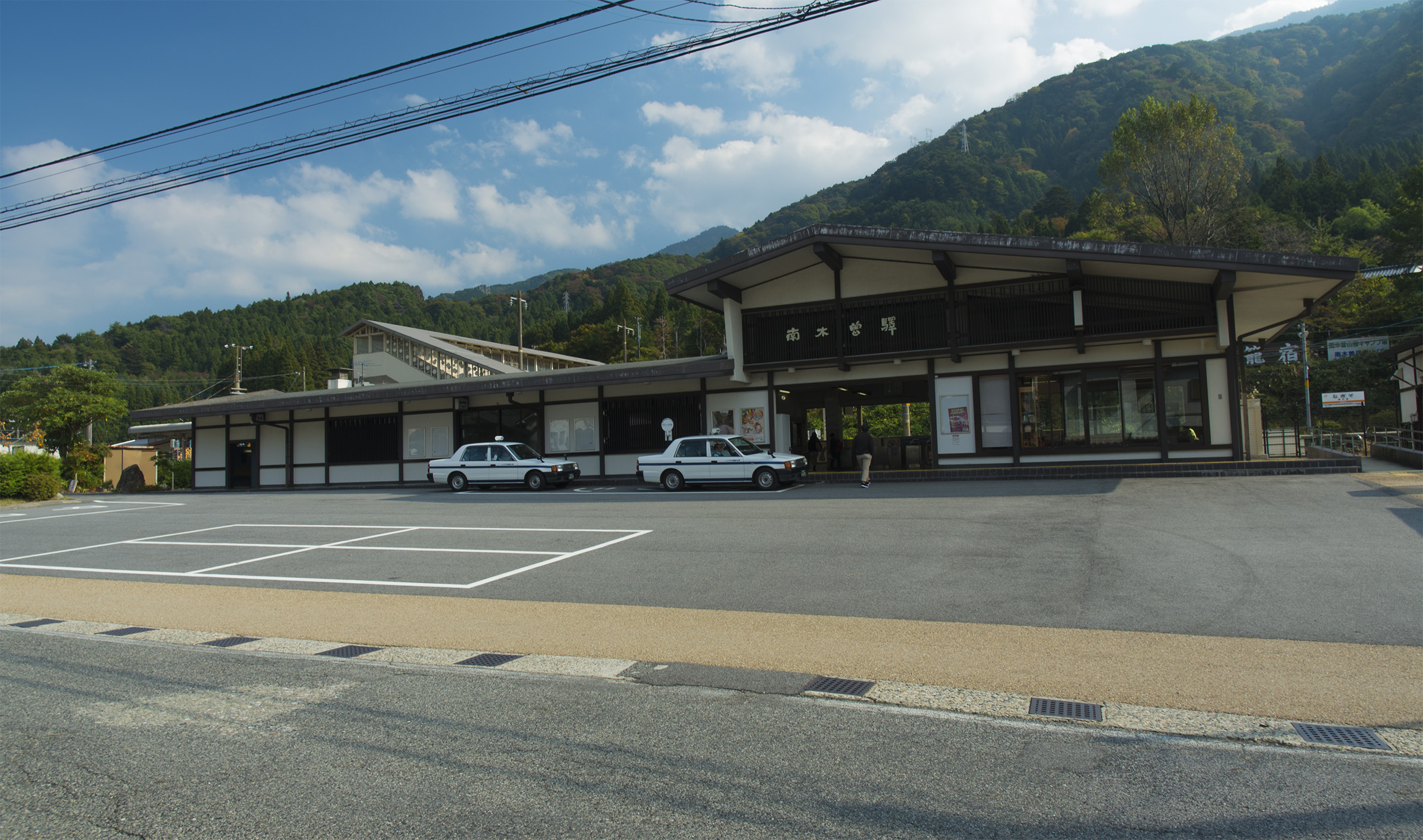 JR Central Chuo Main Line Nagiso Station